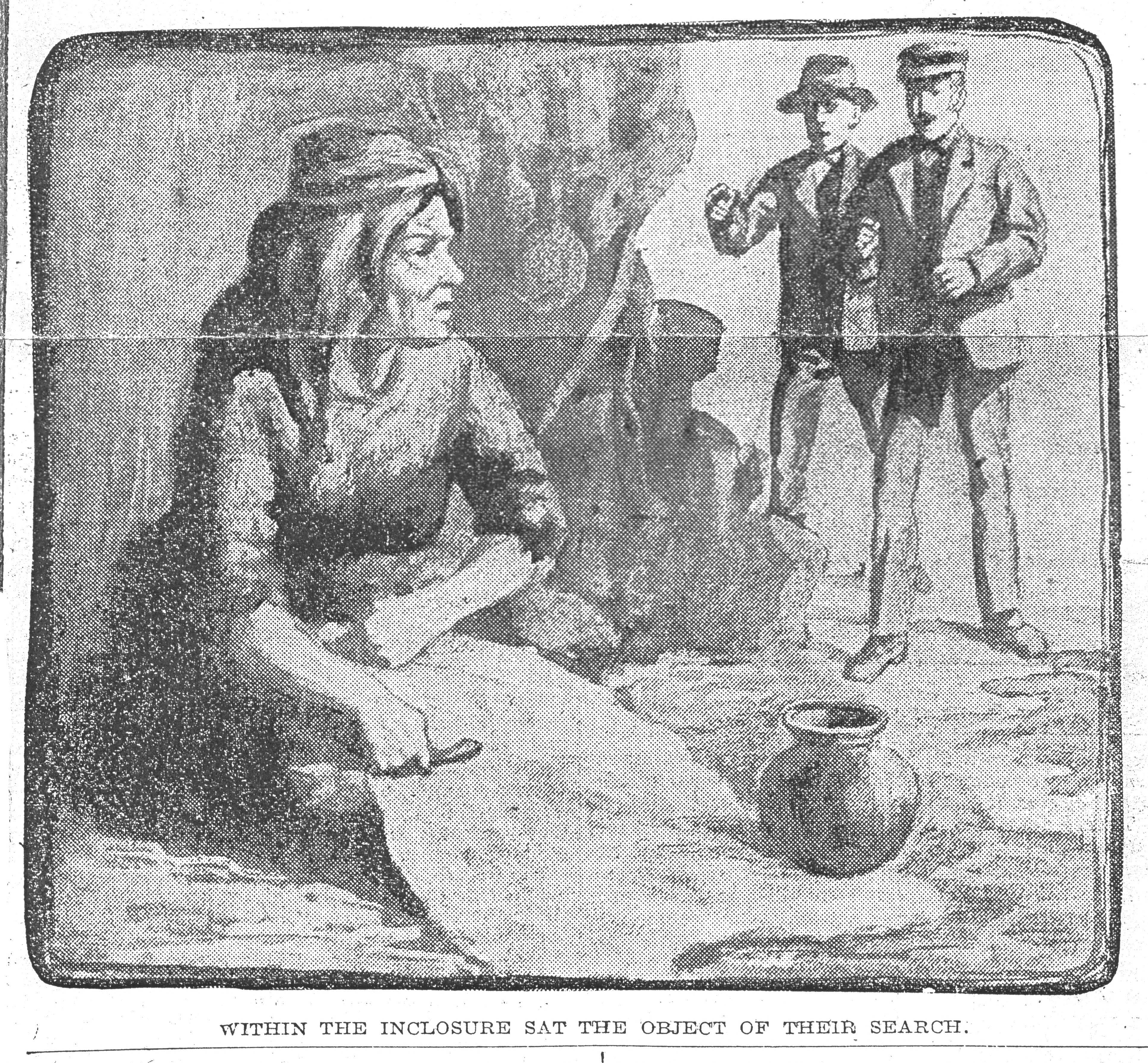 Illustration from "Twenty Years Alone. The True Story of the Woman of San Nicolas Island" from the Los Angeles Times Magazine M. E. Dudley (likely Mary E. Dudley)